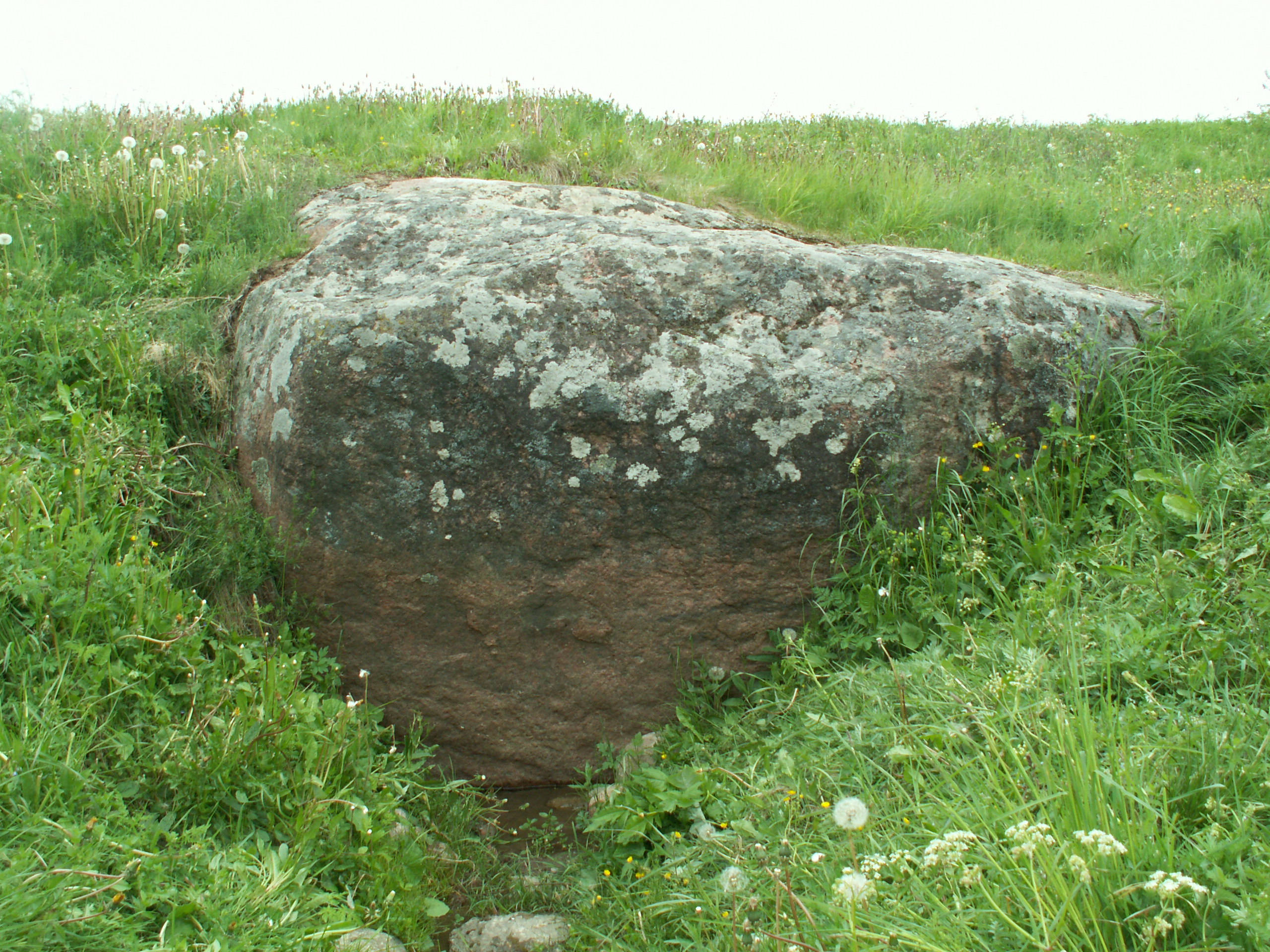 Senoji Įpiltis, Kretinga district, Lithuania